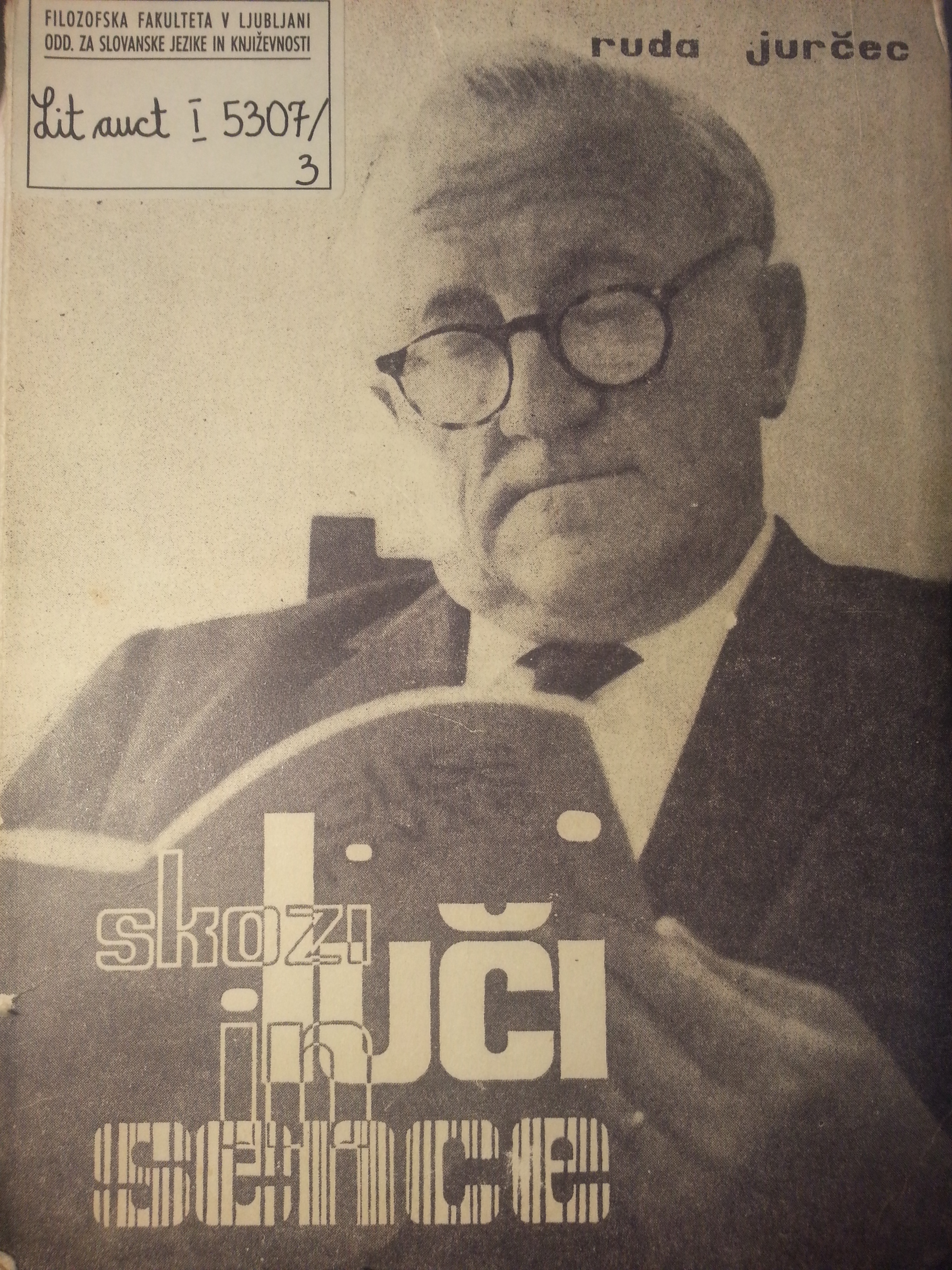 Skozi luči in sence 3